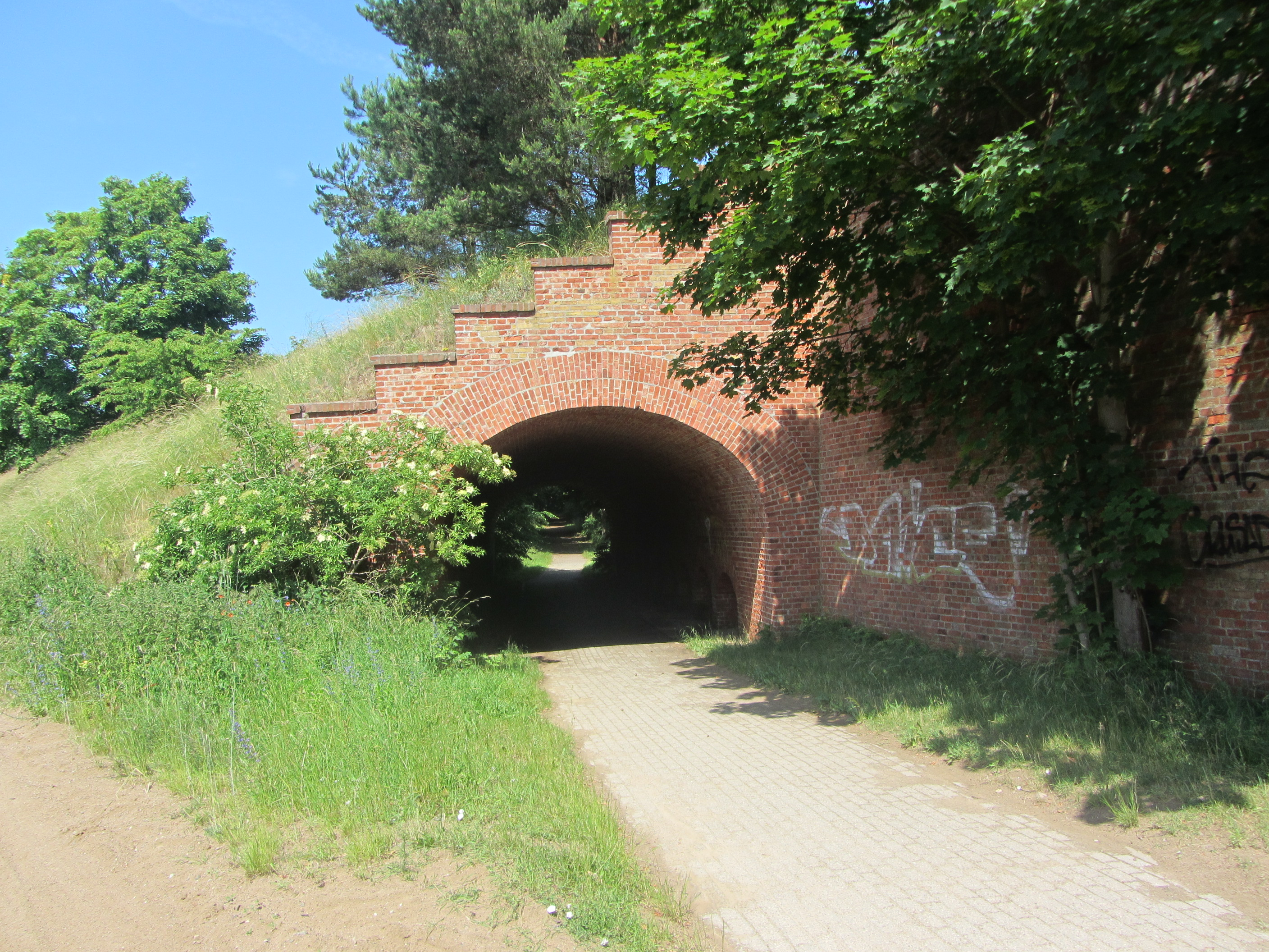 Bridge of Ducherow-Heringsdorf-Wolgaster Fähre railway near Kutzow/Zirchow, district Vorpommern-Greifswald, Mecklenburg-Vorpommern, Germany